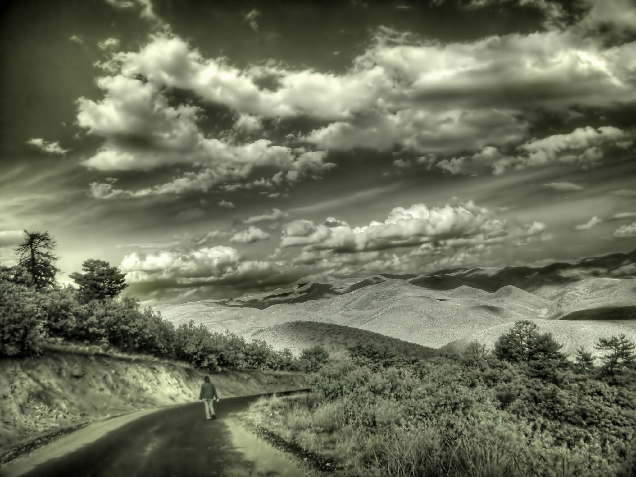 Infrared Photographs